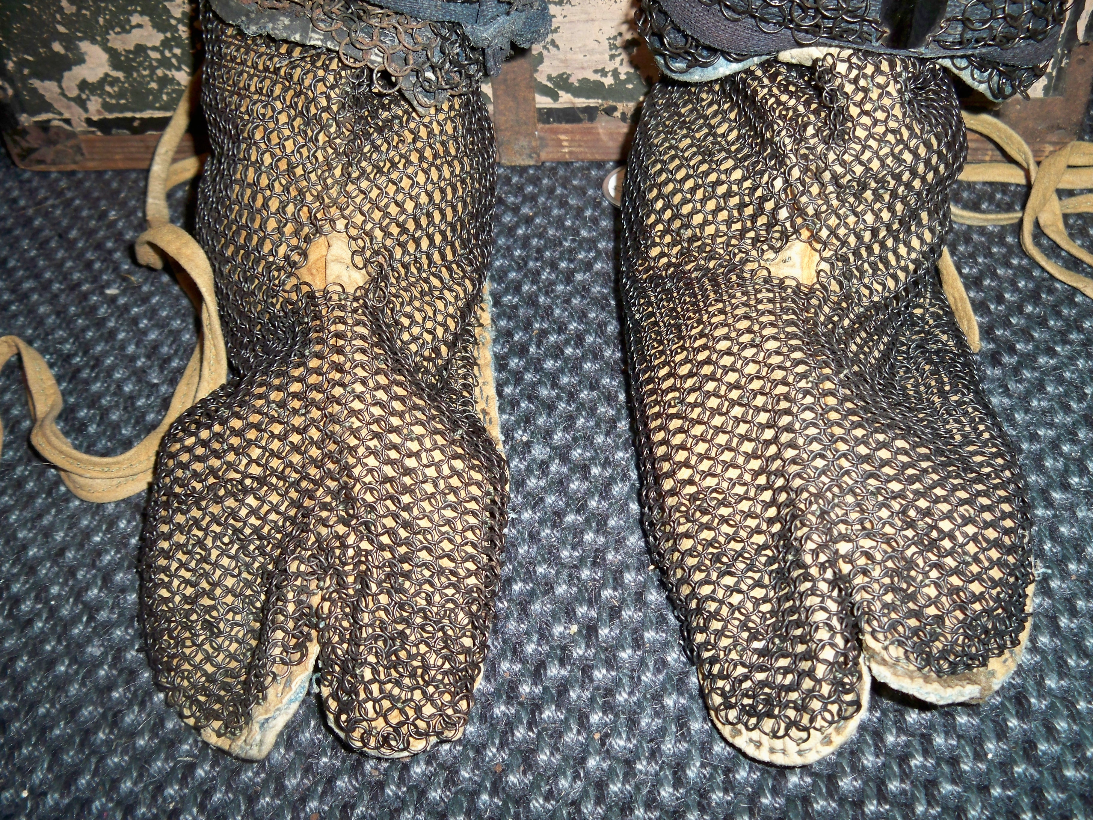 Edo period 1800s Japanese(samurai)chain socks or kusari tabi, armored tabi (Kôgake). Chain sewn to leather.